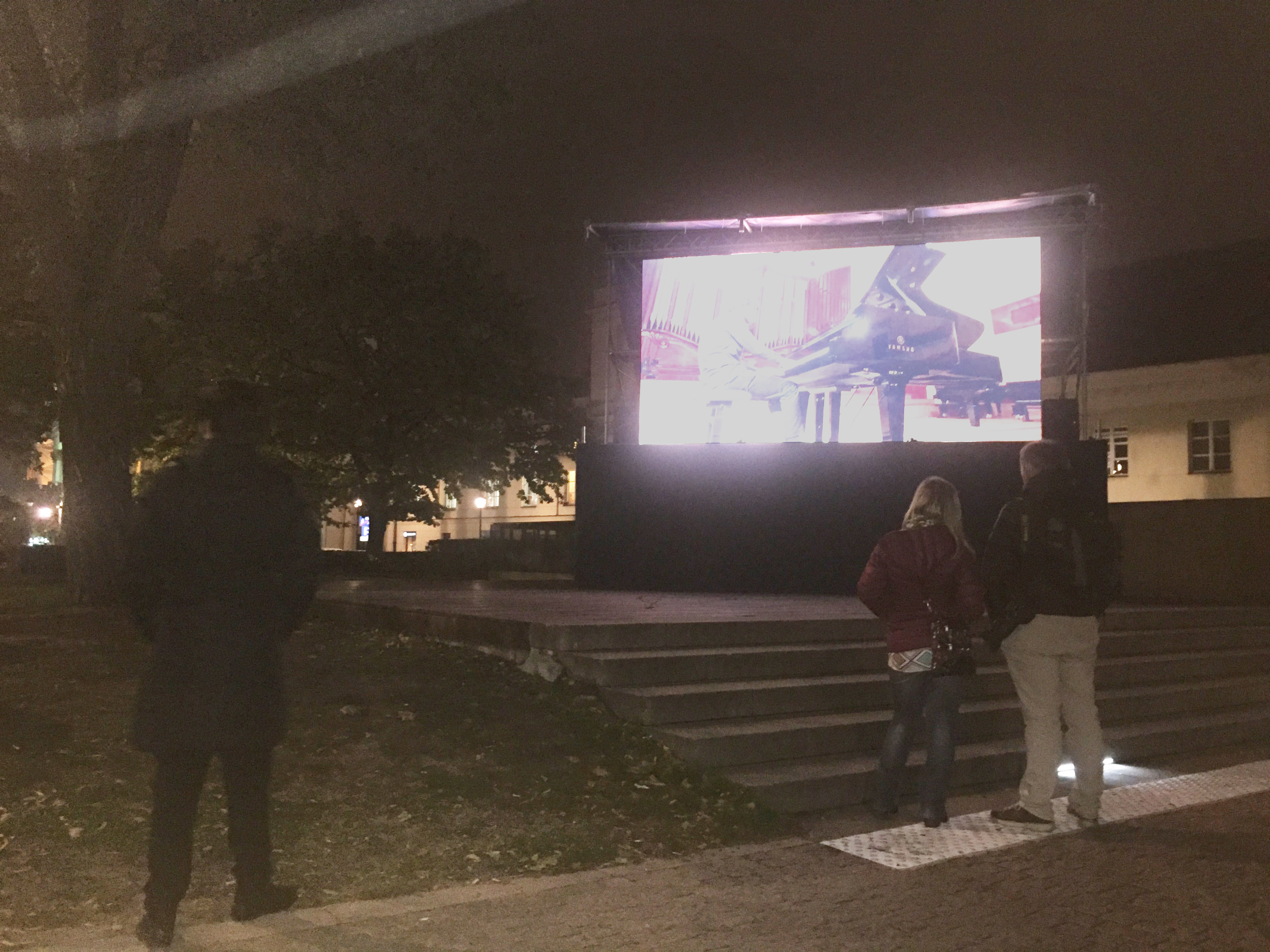 Public Viewing at the International Chopin Piano Competition 2015